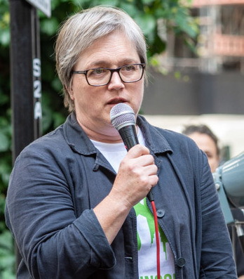 London, England, UK - 13 October 2018: London Assembly Member and Islington Borough Councillor Caroline Russell speaks at the "Pedal On Parliament" event organised by Stop Killing Cyclists to call for greater investment in safe cycling infrastructure.